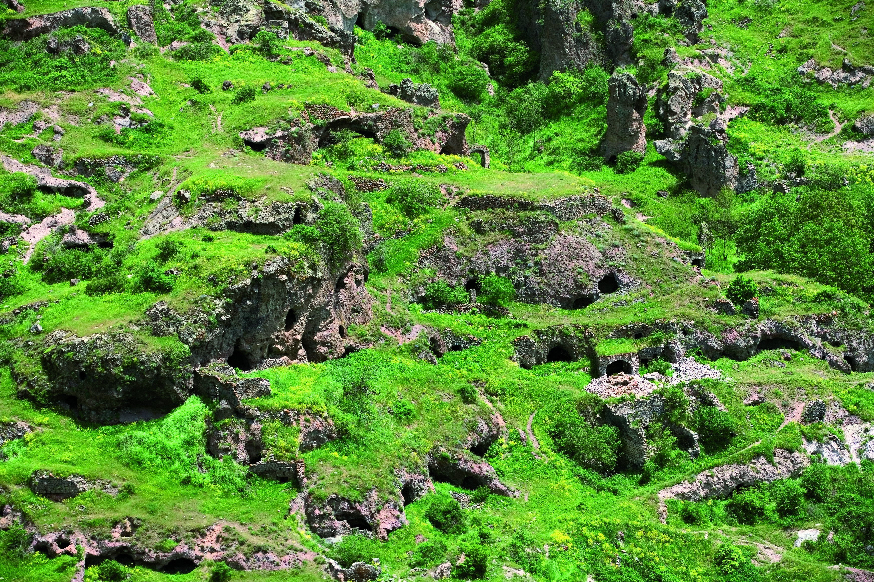 The Cave-City Tegh at Goris, Syunik, Armenia